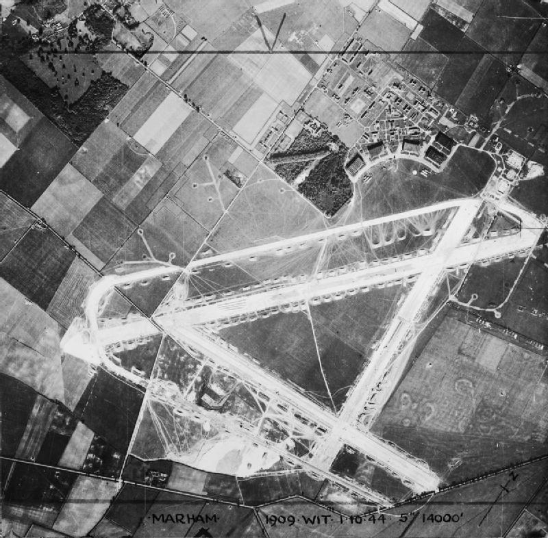 Aerial photograph of RAF Marham, Norfolk, England, from 14,000ft a few months after upgrade to concrete runways in April 1944.